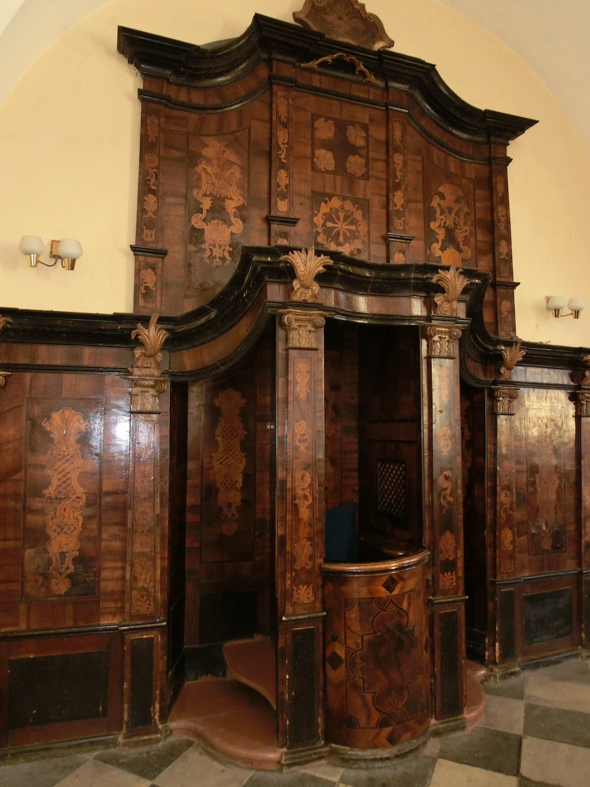 Intarsia confessor in Assumption Church Jeseník